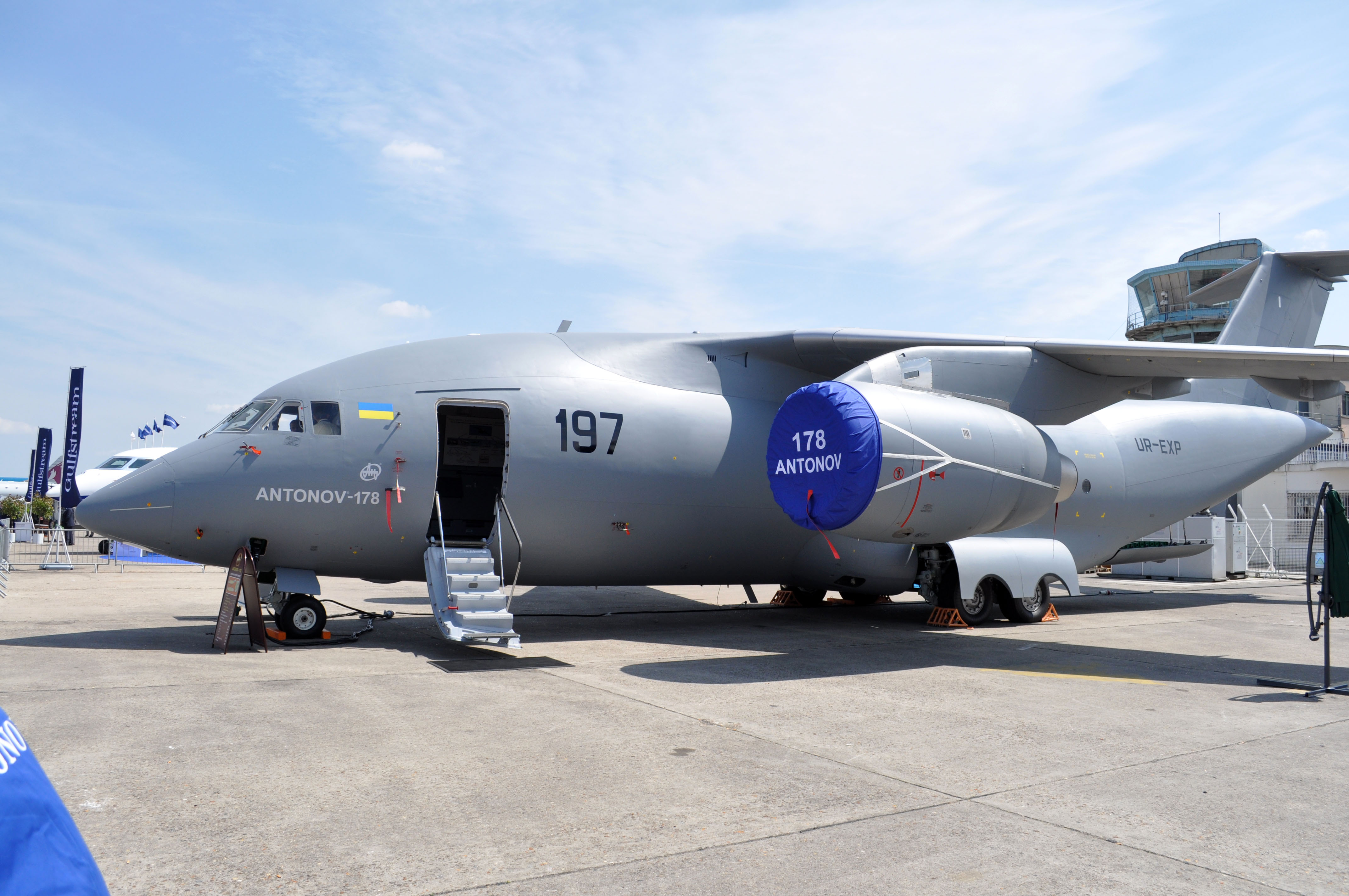 Antonov An-178, Antonov Design Bureau Airlines, LBG AIRPORT, SIAE 2015, FIRST FLIGHT 05/07/2015